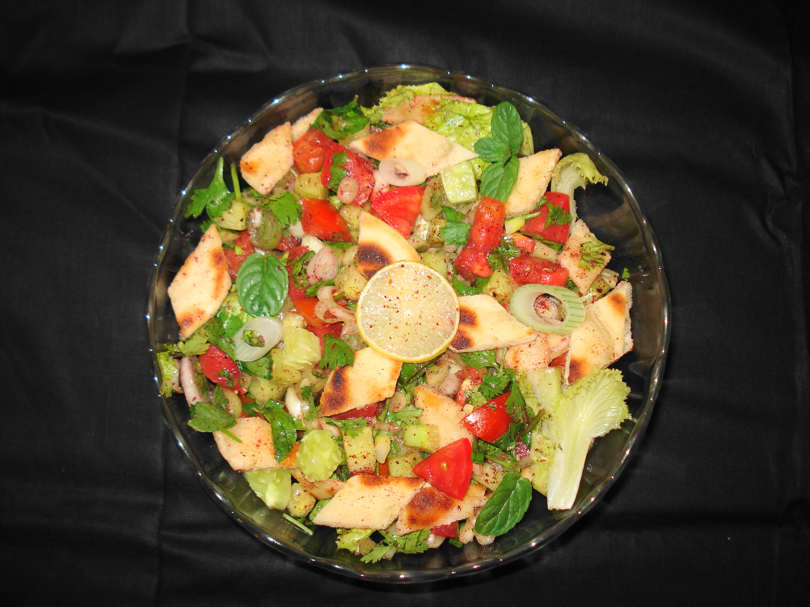 Fattoush